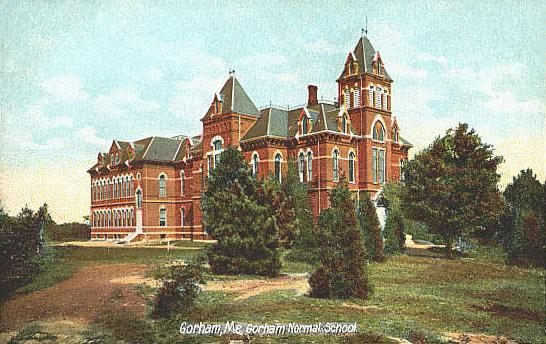 Gorham Normal School, Gorham, ME; from a 1905 postcard published by the Hugh C. Leighton Company of Portland, Maine. The school is now the University of Southern Maine.